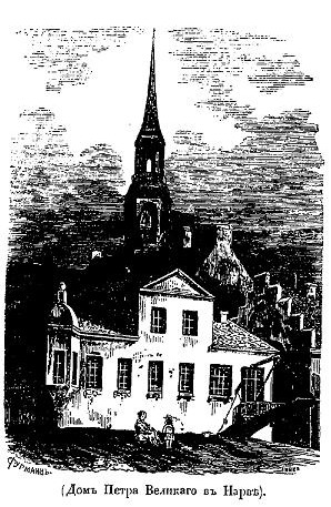 Illustratsiya Magazine